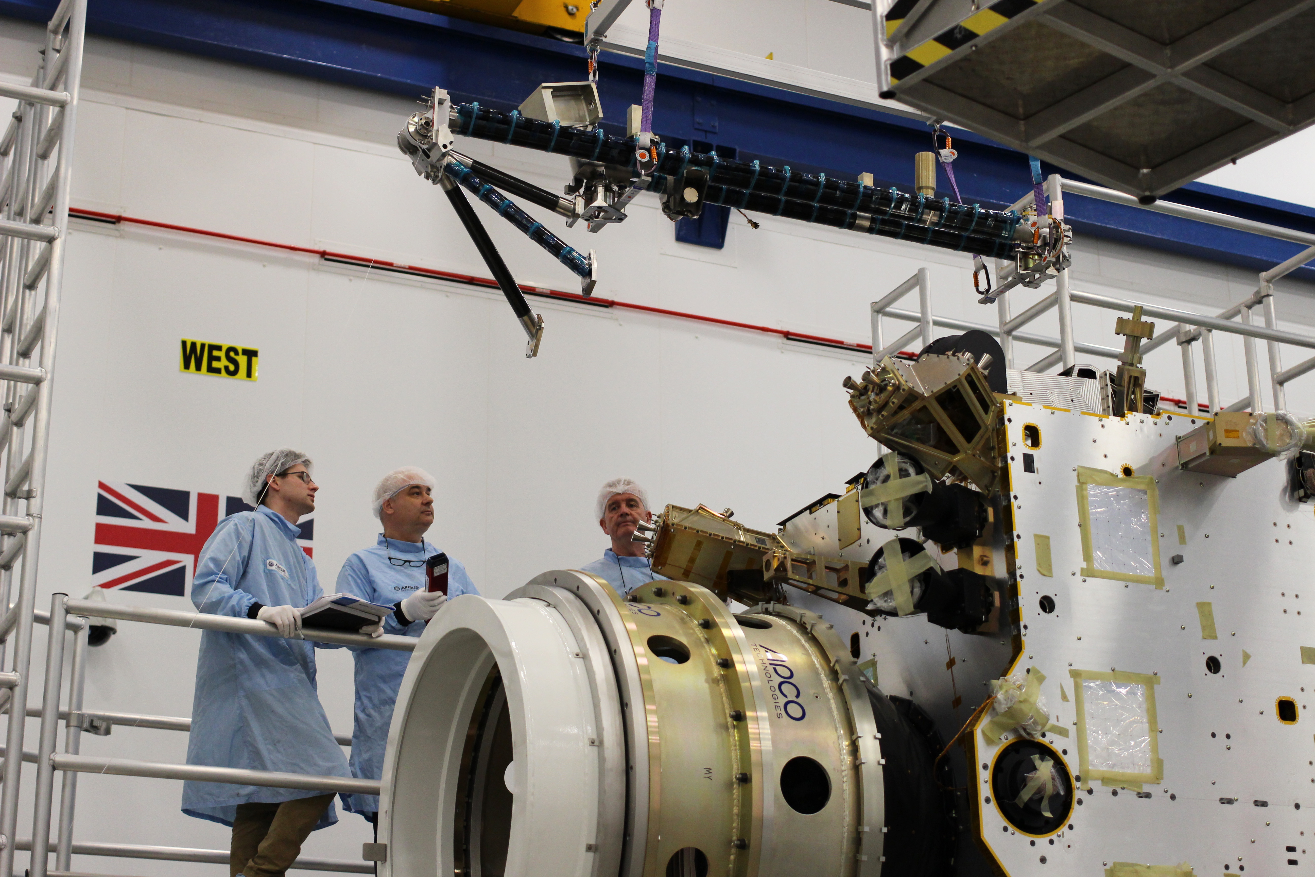 The boom featuring the EAS sensor is fitted to the spacecraft. This is part of a set of photos showing the Solar Orbiter Structural Thermal Model (a full scale model of the spacecraft, which will be used for testing), taken at the Airbus Defence & Space facility in Stevenage in March 2015. Photo credit: O. Usher (UCL MAPS)